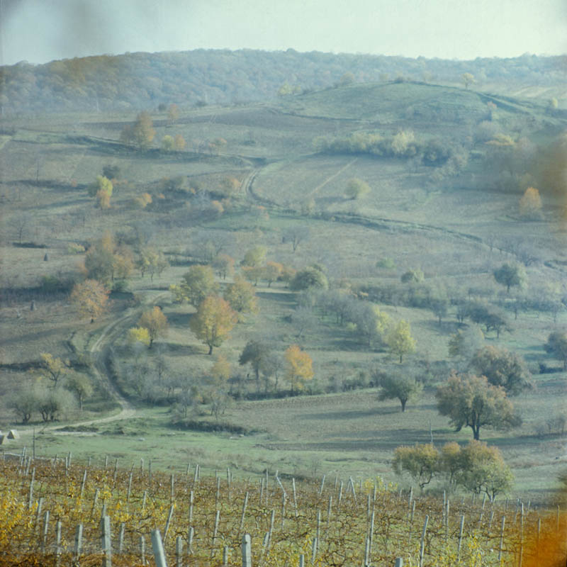 In the neighborhood Sangerei (1980).